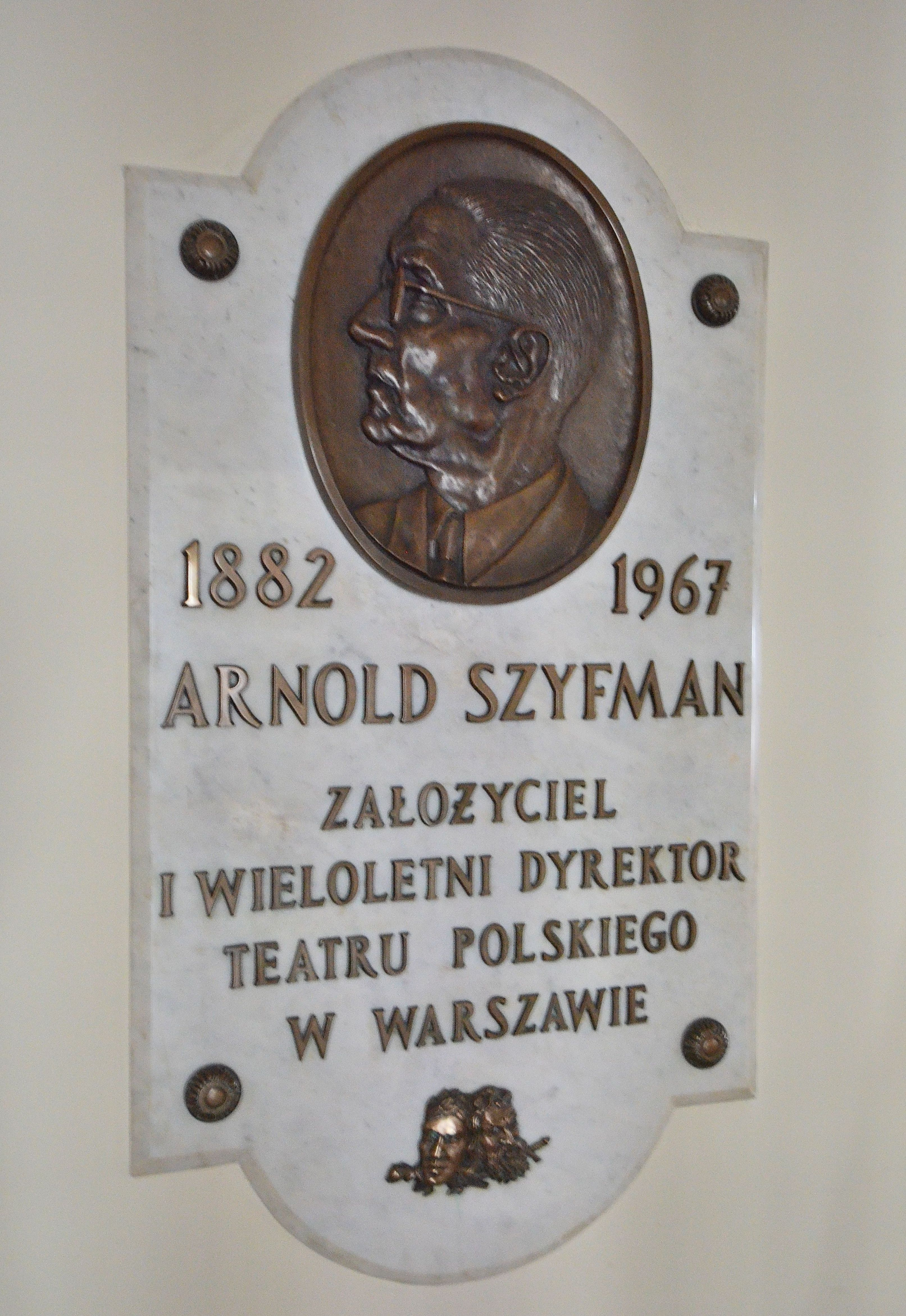 Plaque in memory of Arnold Szyfman in the lobby of the Polish Theatre in Warsaw